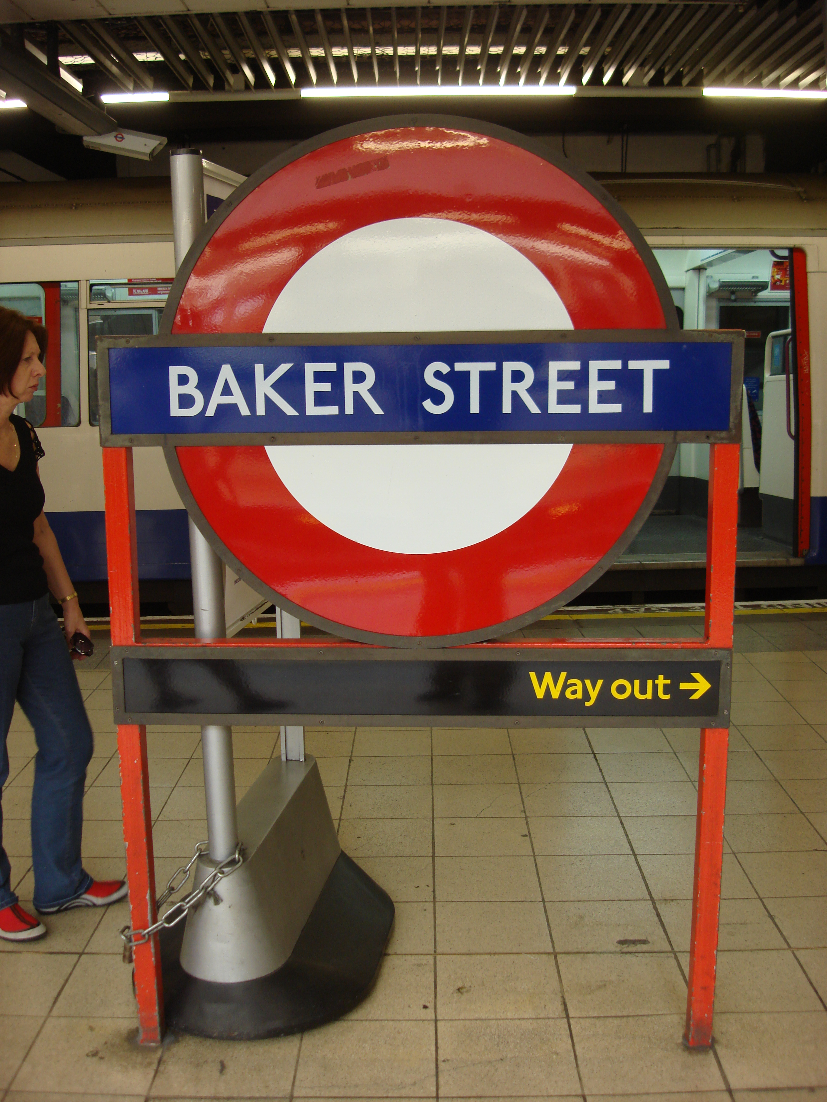 Roundel from Baker Street tube station's Eastbound Metropolitan Line platform